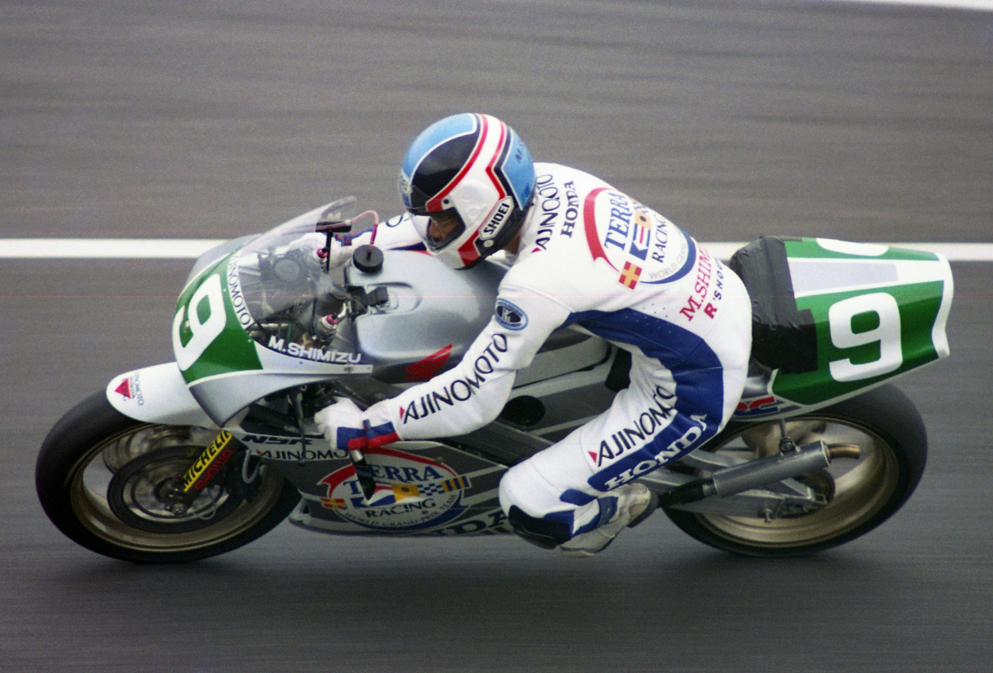 Masahiro Shimizu, in Japanese Grand Prix 1989